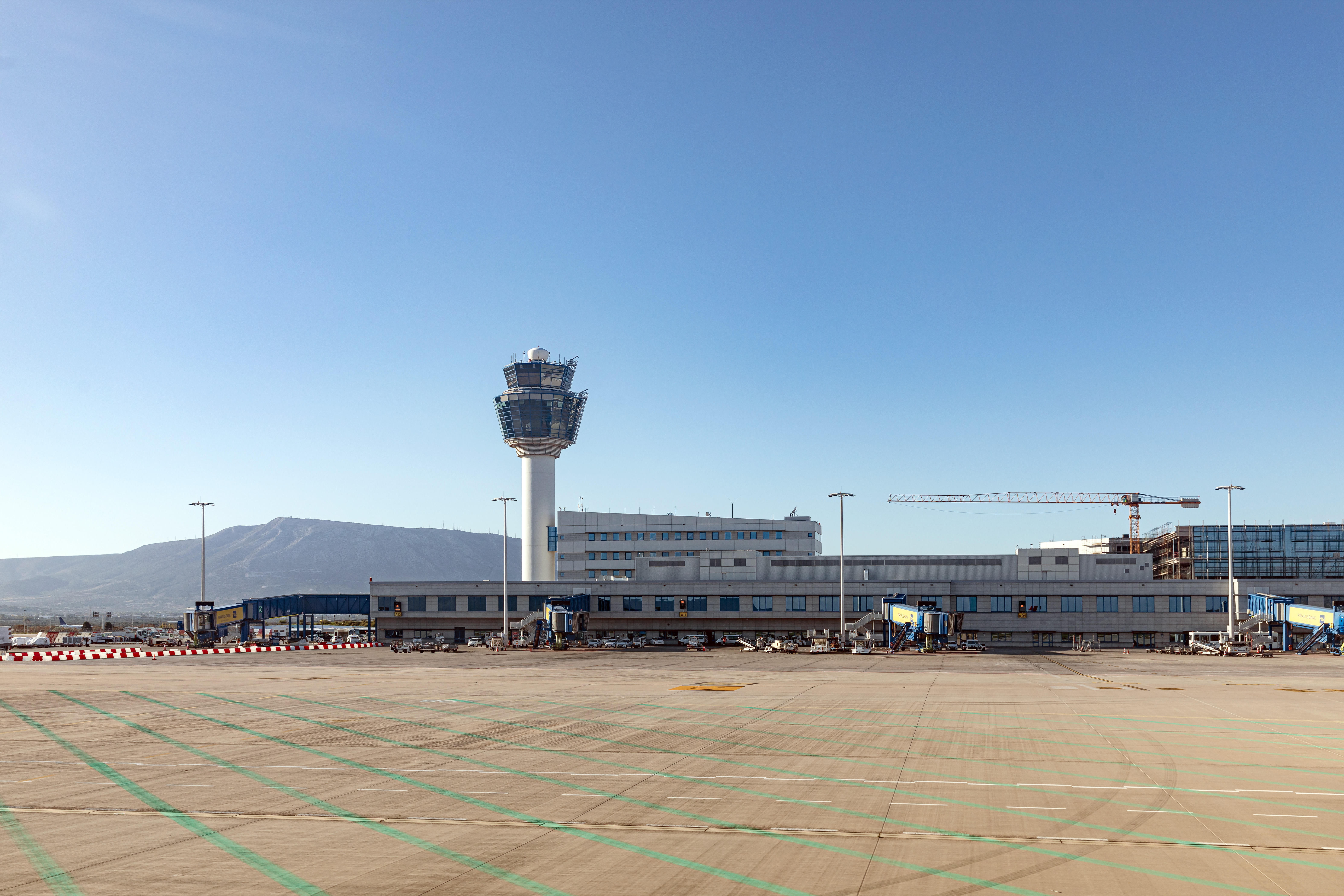 Athens International Airport, Greece.